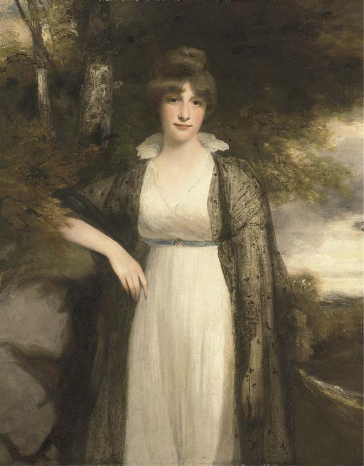 Portrait in oils of Eleanor Agnes Hobart, Countess of Buckinghamshire (died 1851)